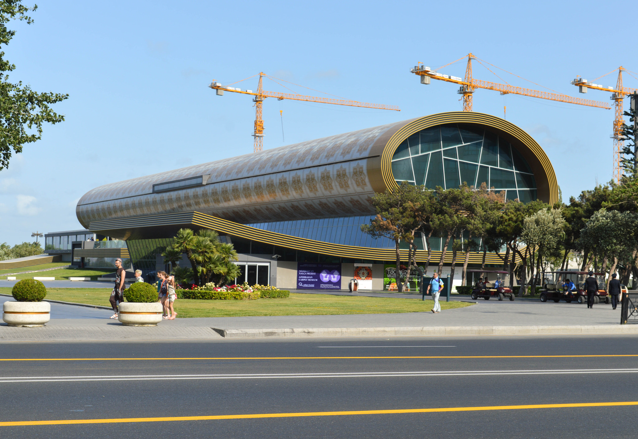 500px provided description: Carpet Museum Looks Like A Carpet [#sky ,#city ,#street ,#travel ,#car ,#tourism ,#urban ,#architecture ,#road ,#traffic ,#bridge ,#building ,#modern ,#vehicle ,#outdoors ,#horizontal ,#daylight ,#business ,#no person ,#transportation system]